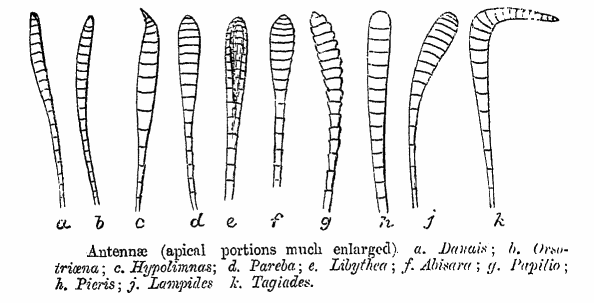 Butterfly antenna tips: a: Danais = Danaus b: Orsotriaena c: Hypolimnas d: Pareba = Acraea e: Libythea f: Abisara g: Papilio h: Pieris j: Lampides k: Tagiades